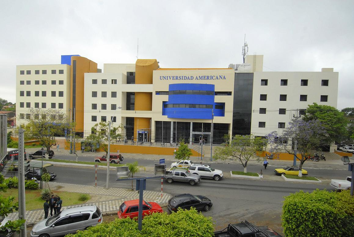 American University of Paraguay, edificio ampliado para el área de postgrado.